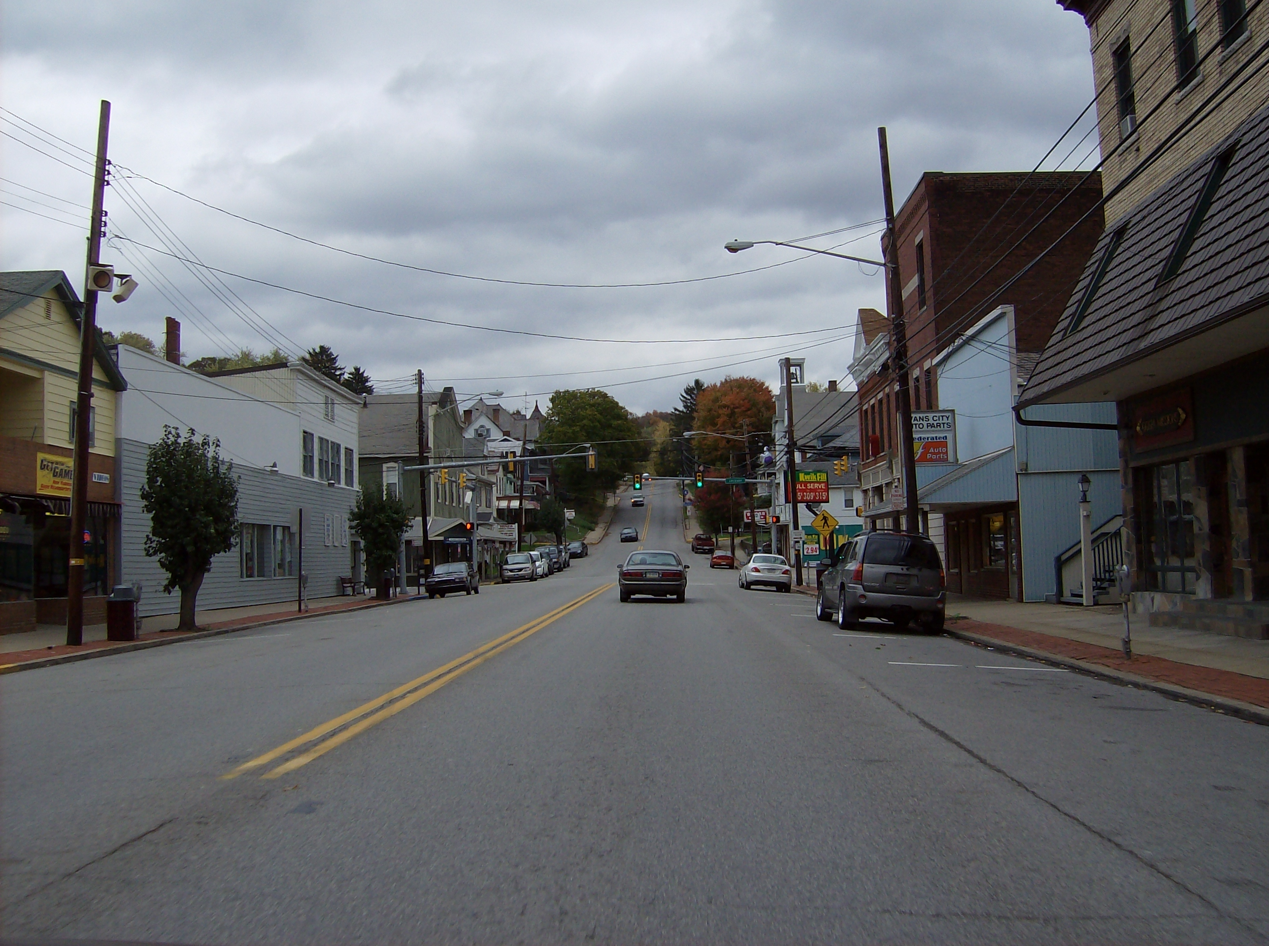 Along eastbound Route 68 in central Evans City, Pennsylvania, United States.